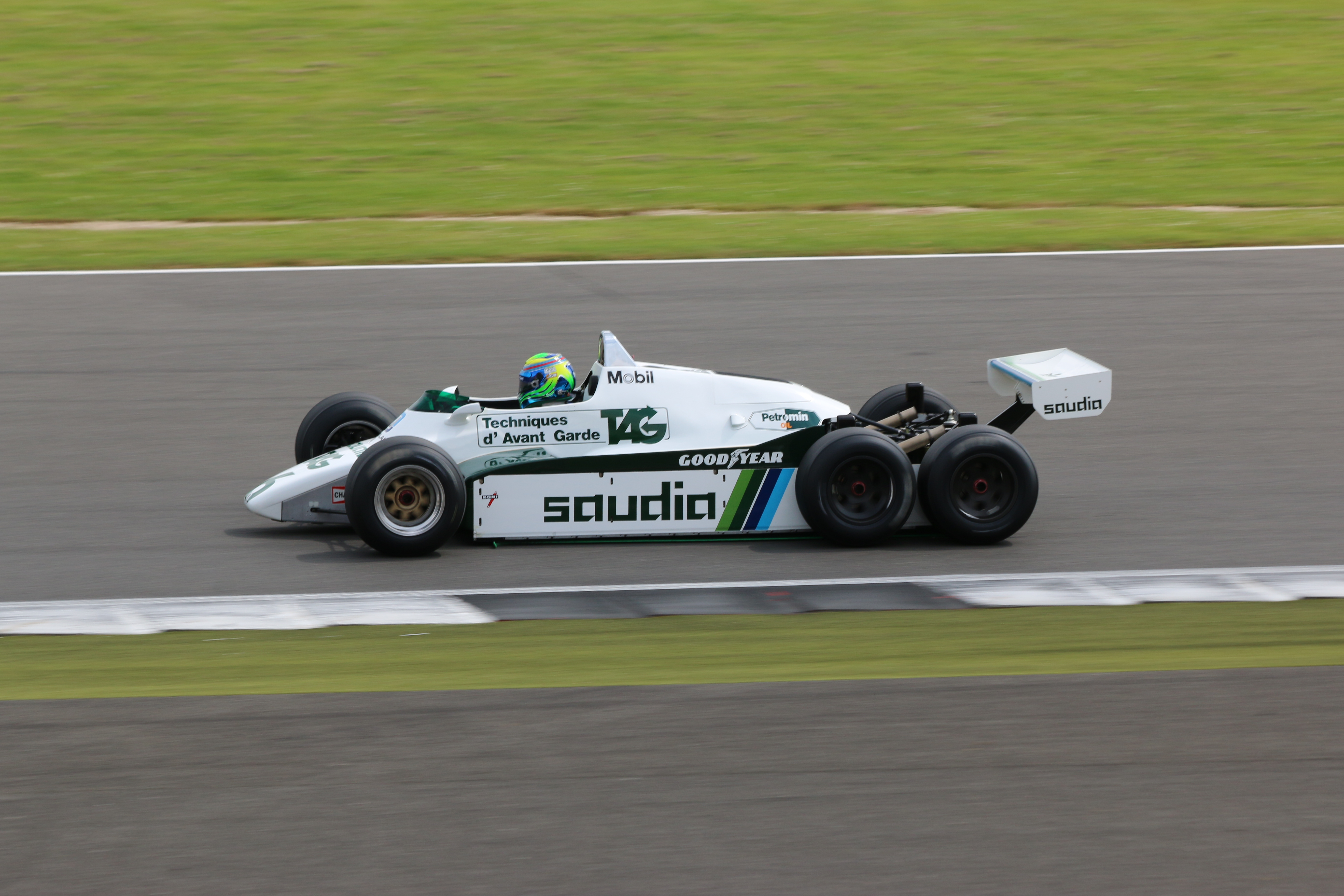 1982 FW08B, Unraced, Williams' last attempt at a six-wheeled F1 car. Driven here by Felipe Massa